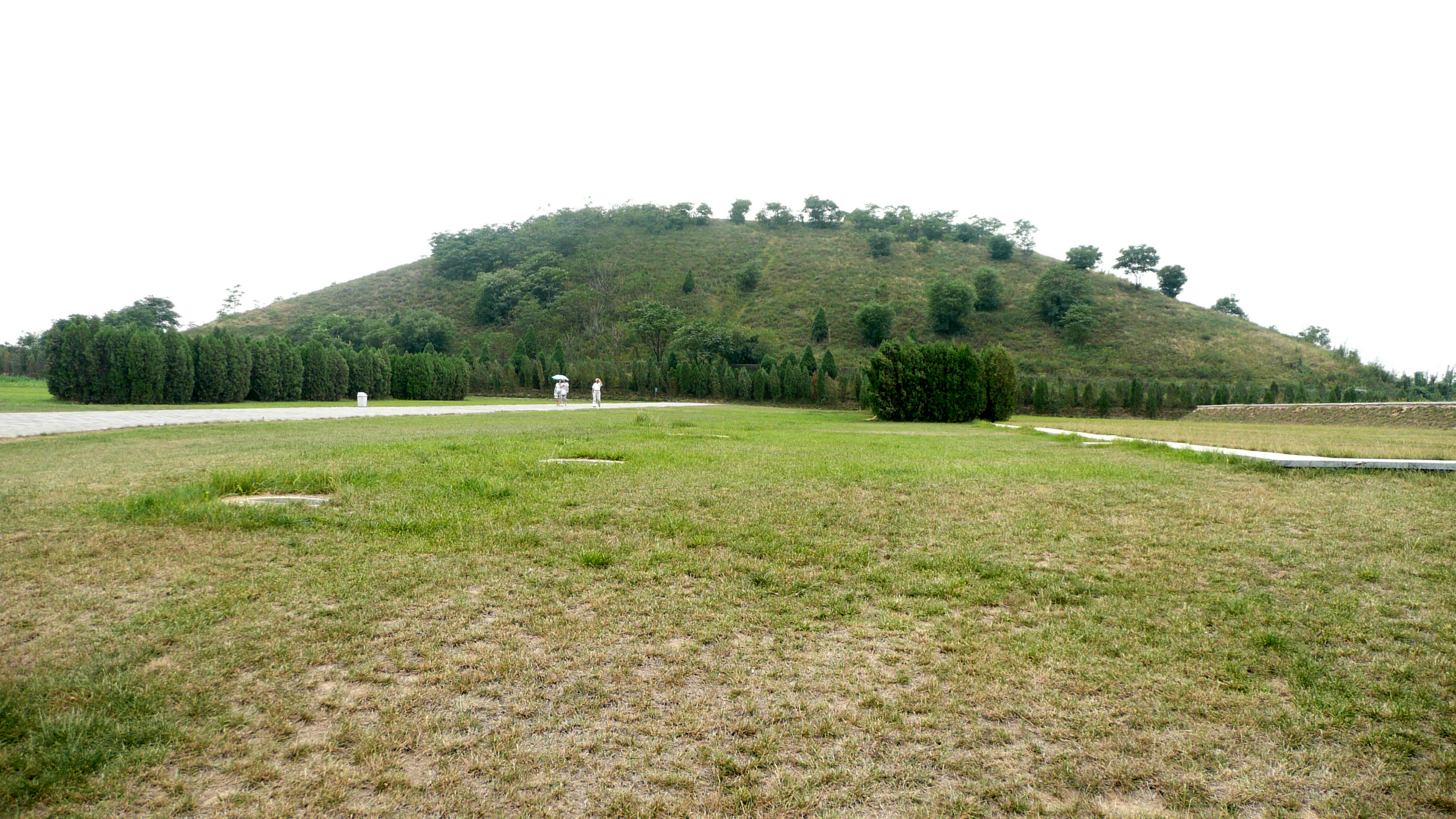 Mausoleum of Han Yang Ling near Xian